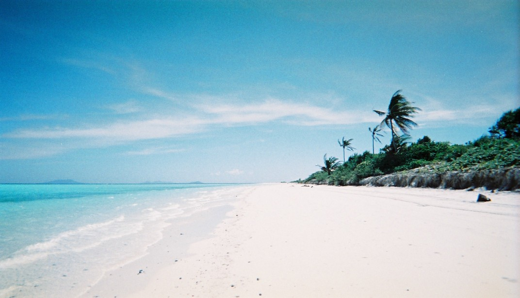 North shore of Pamalican island. Personal photograph December 2005.